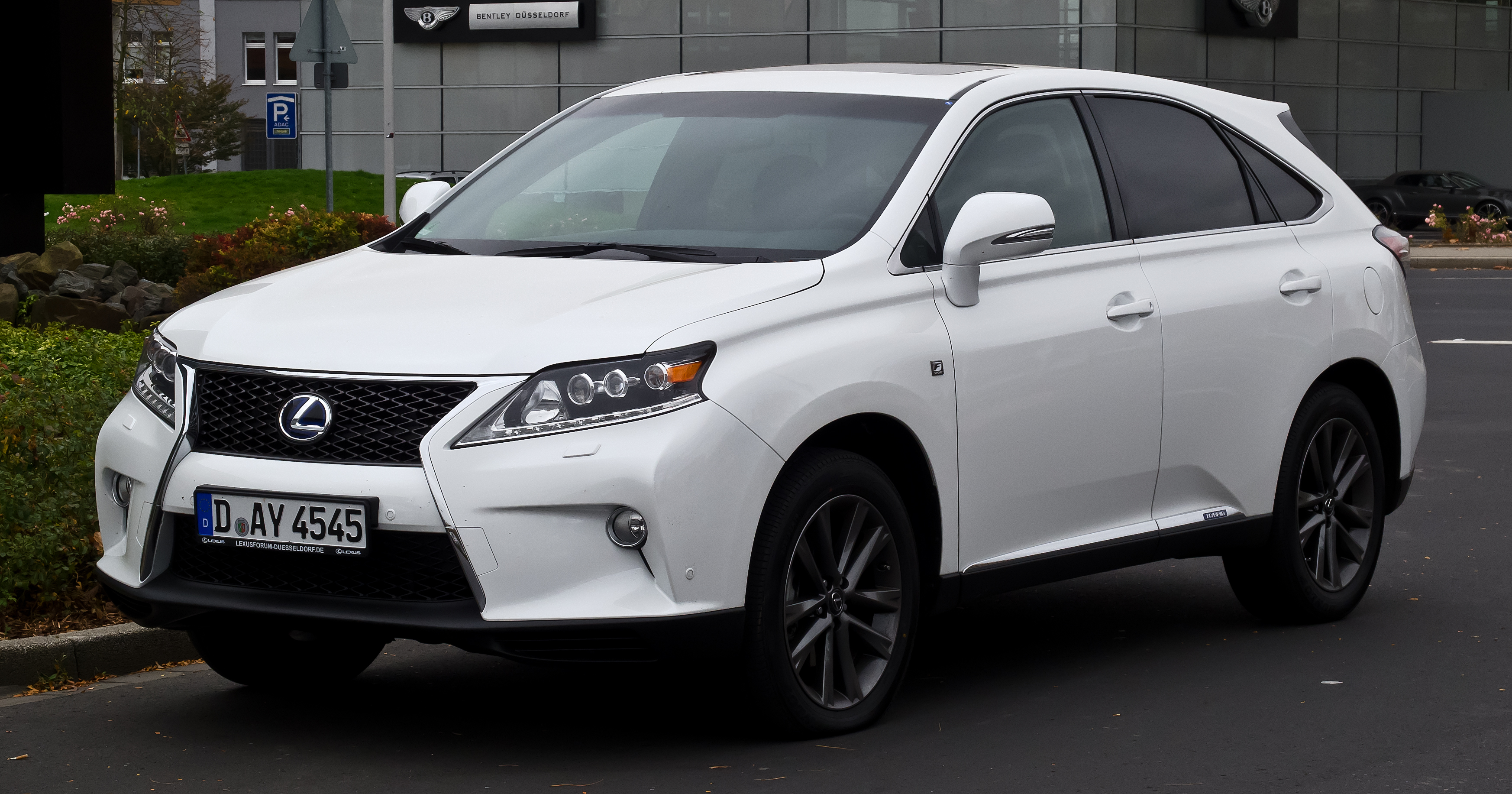 Lexus RX 450h F Sport (III, Facelift)